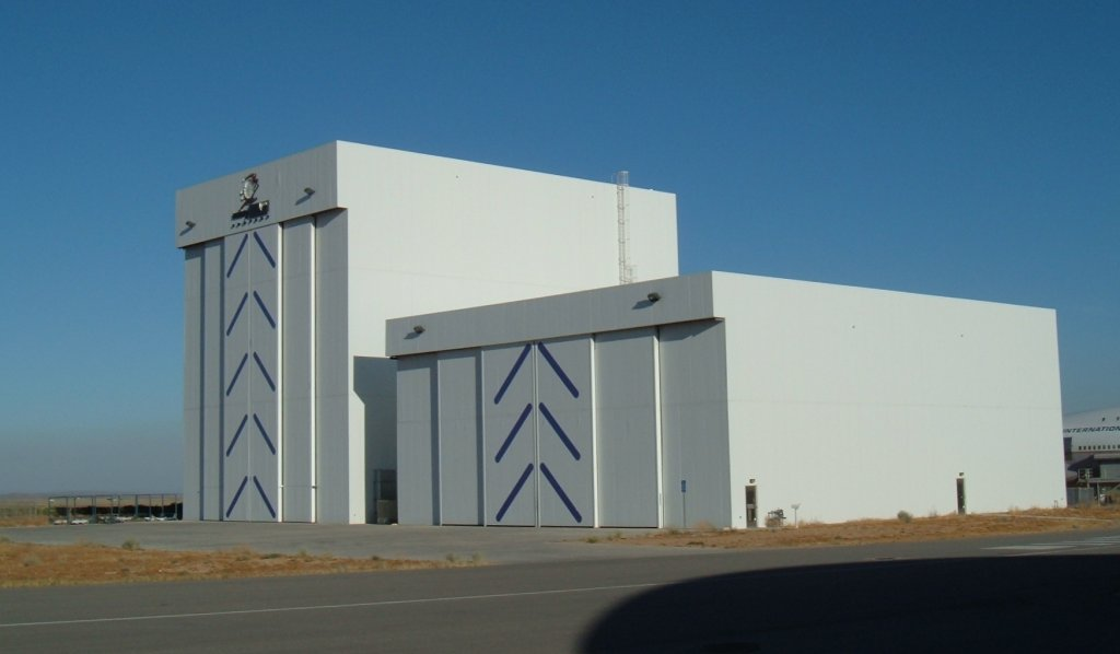 The Rotary Rocket hangars at Mojave Airport on July 9, 2005. Image created and first uploaded on en.wiki by User:Willy Logan.